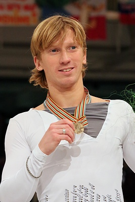 Konstantin Menshov at the 2014 European Championships - Awarding ceremony